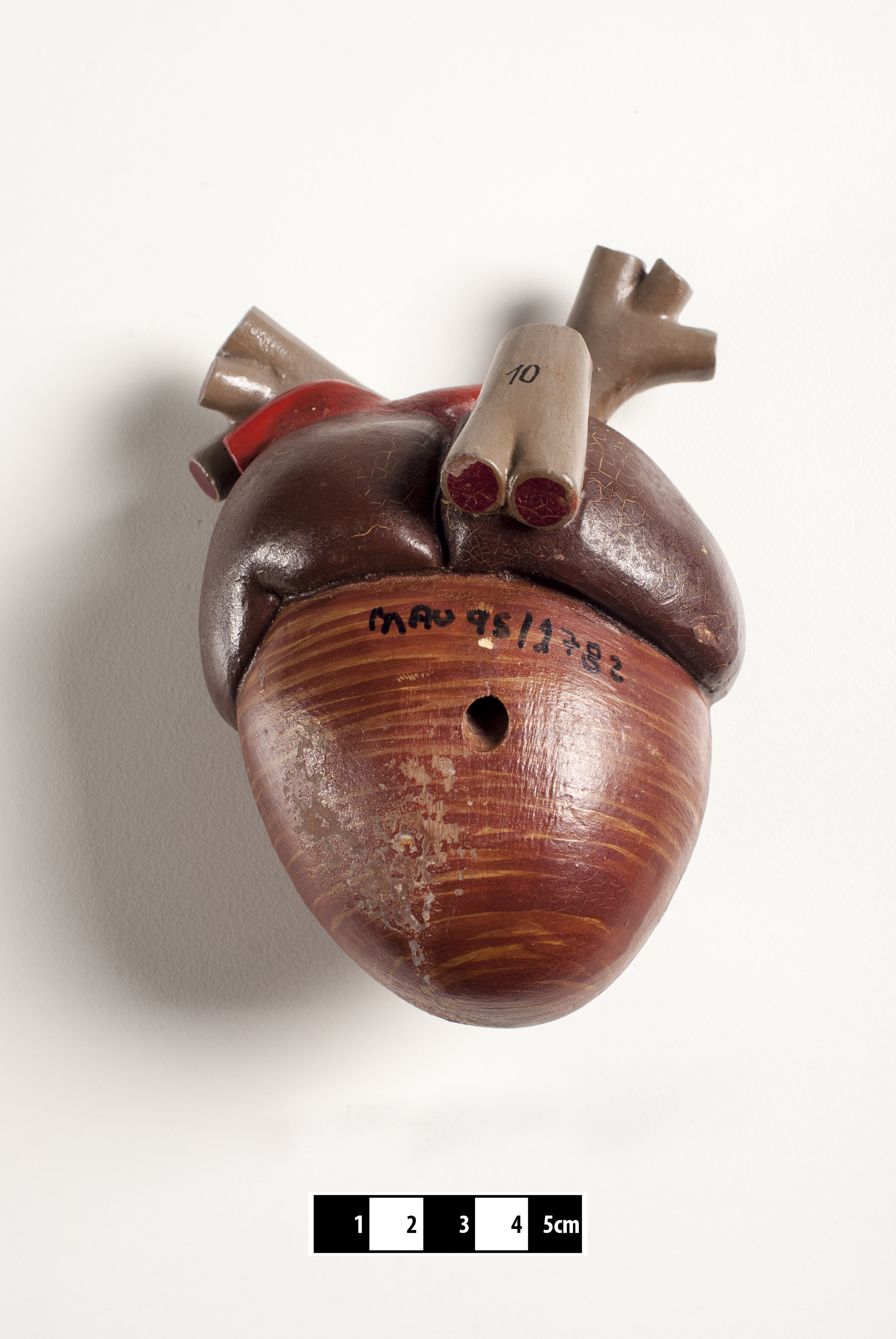 Didactic model of an avian heart. Teaching model representing different parts of the heart on display at the Museum of Veterinary Anatomy, FMVZ USP. This file was published as the result of a partnership between the Museum of Veterinary Anatomy FMVZ USP, the RIDC NeuroMat and the Wikimedia Community User Group Brasil. This GLAM project is reported. Photography: Museum of Veterinary Anatomy FMVZ USP.